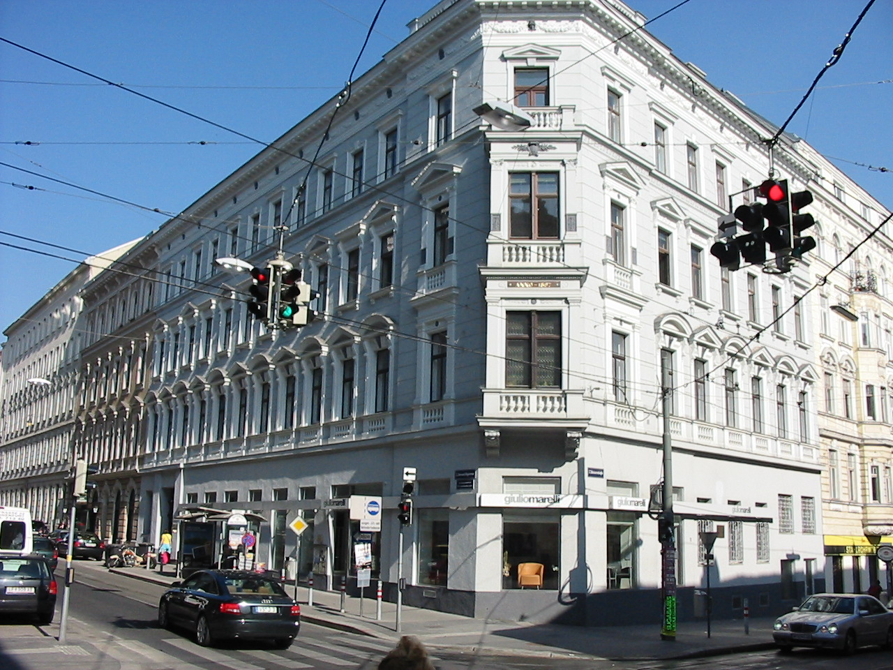 House with memorial plaque for the originator of the Viennese sausage in Vienna / Austria / European Union